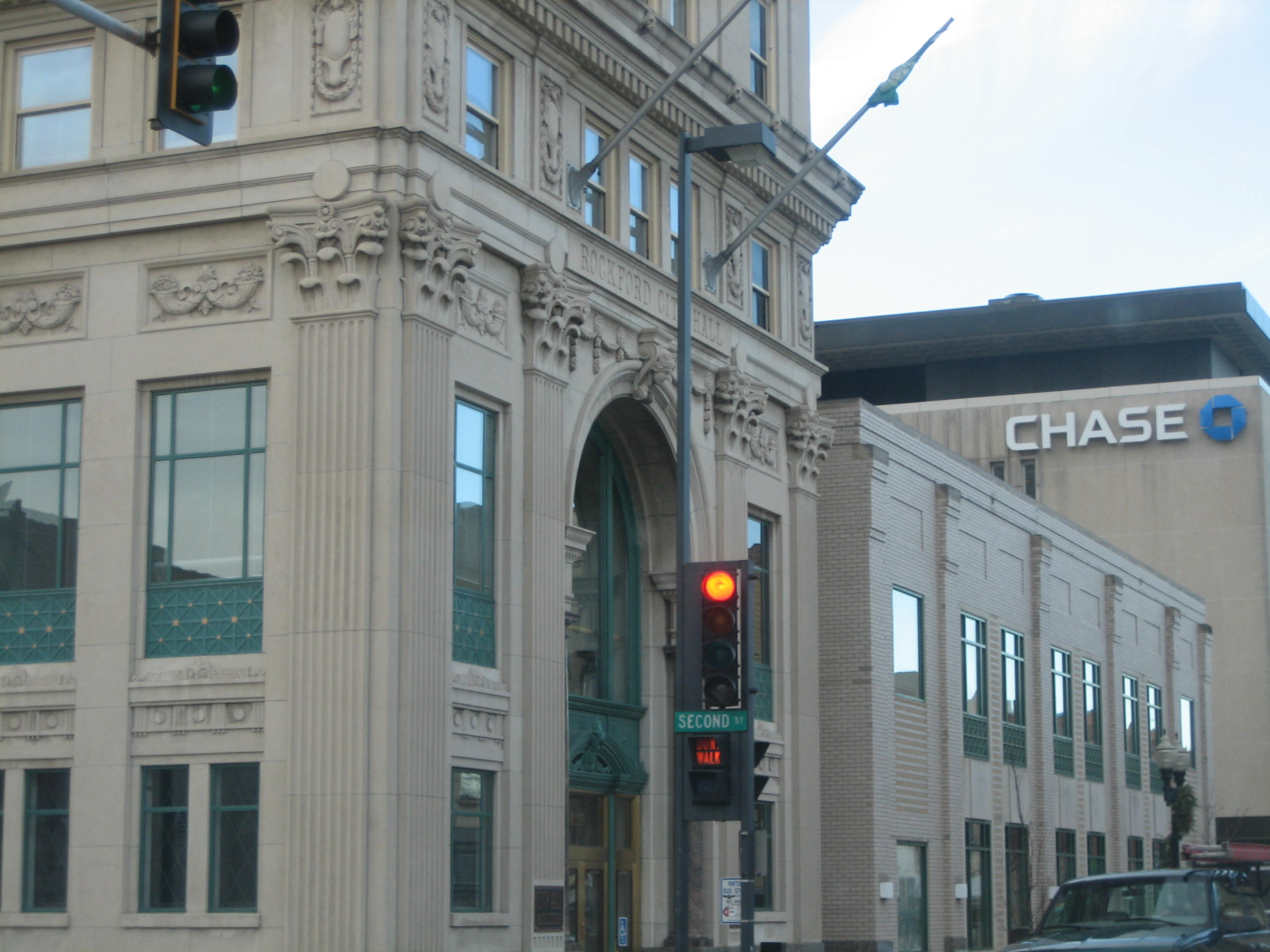 Downtown Rockford, viewed from State Street.